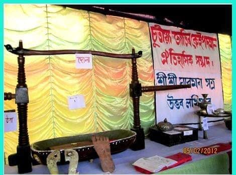 Chutia Kekura Dola(Palaquin) donated by king Satyanarayan to the Gharmora Satra.